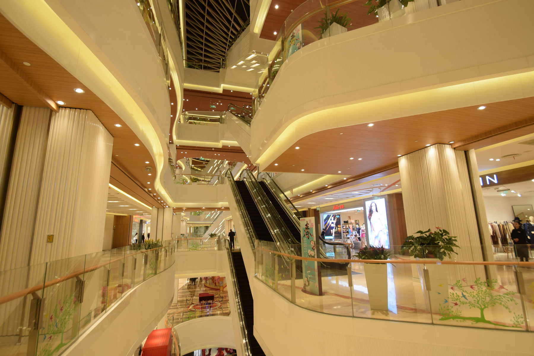 Bailian Shiji Shopping Mall, Century Link, Shanghai